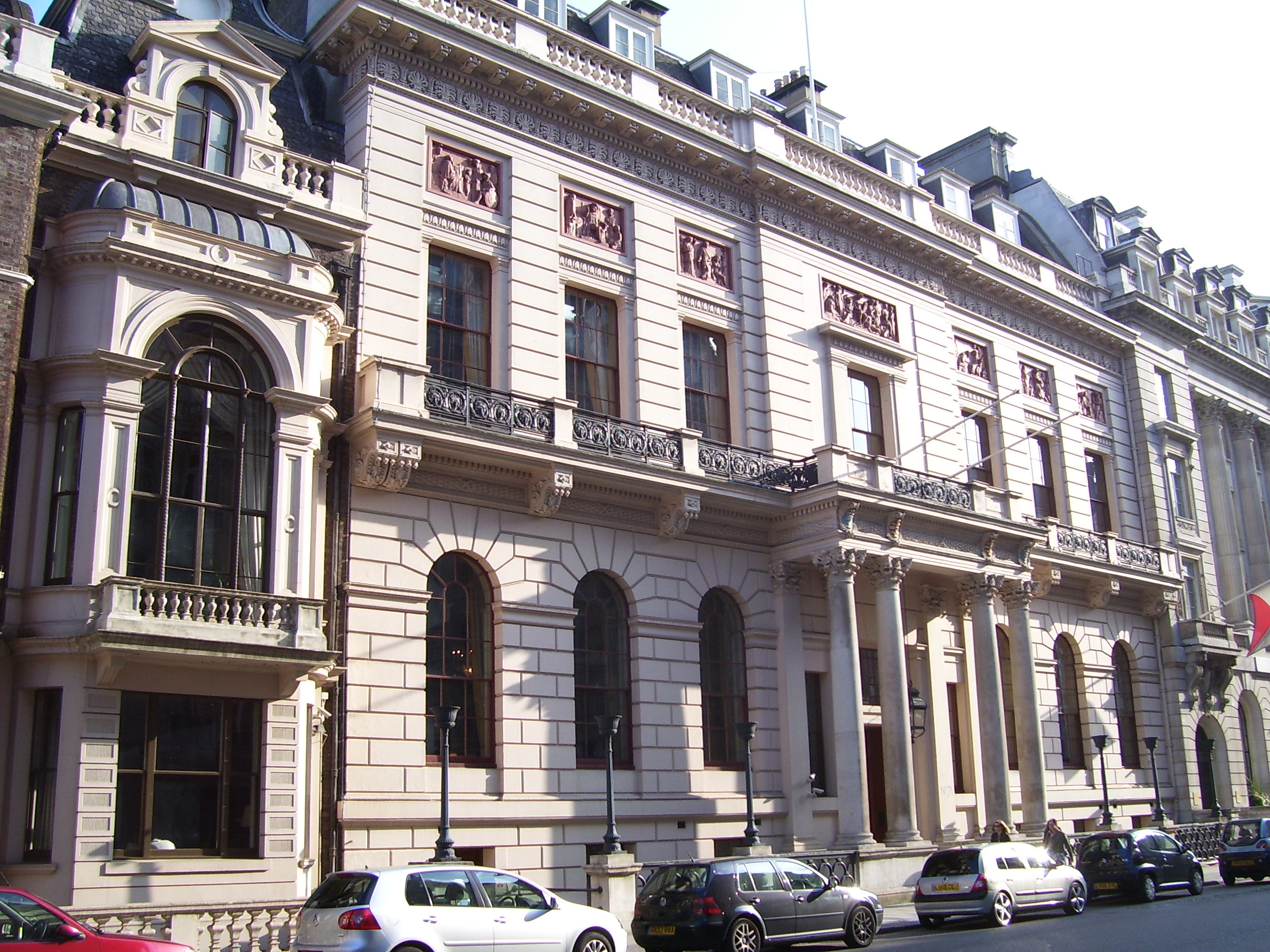 Oxford and Cambridge Club, including the annex on the left. London.